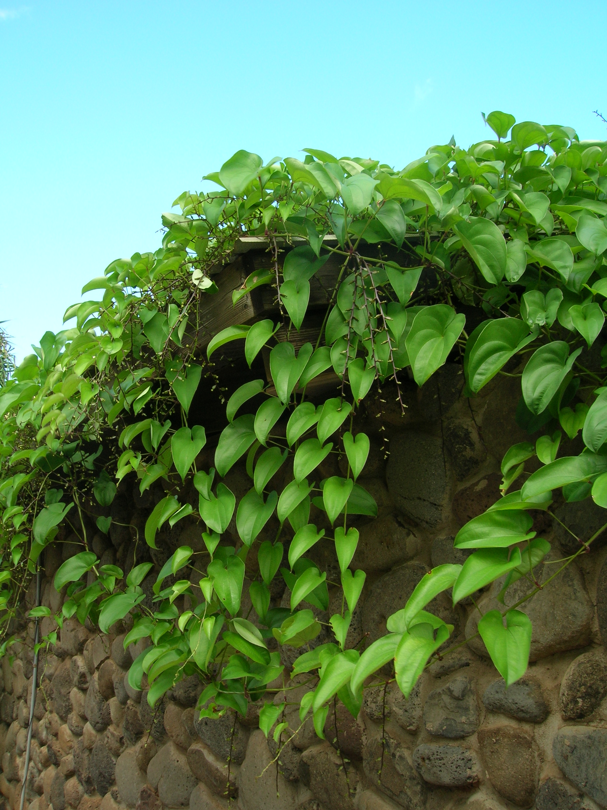 Dioscorea alata (habit). Location: Maui, Maui Nui Botanical Garden